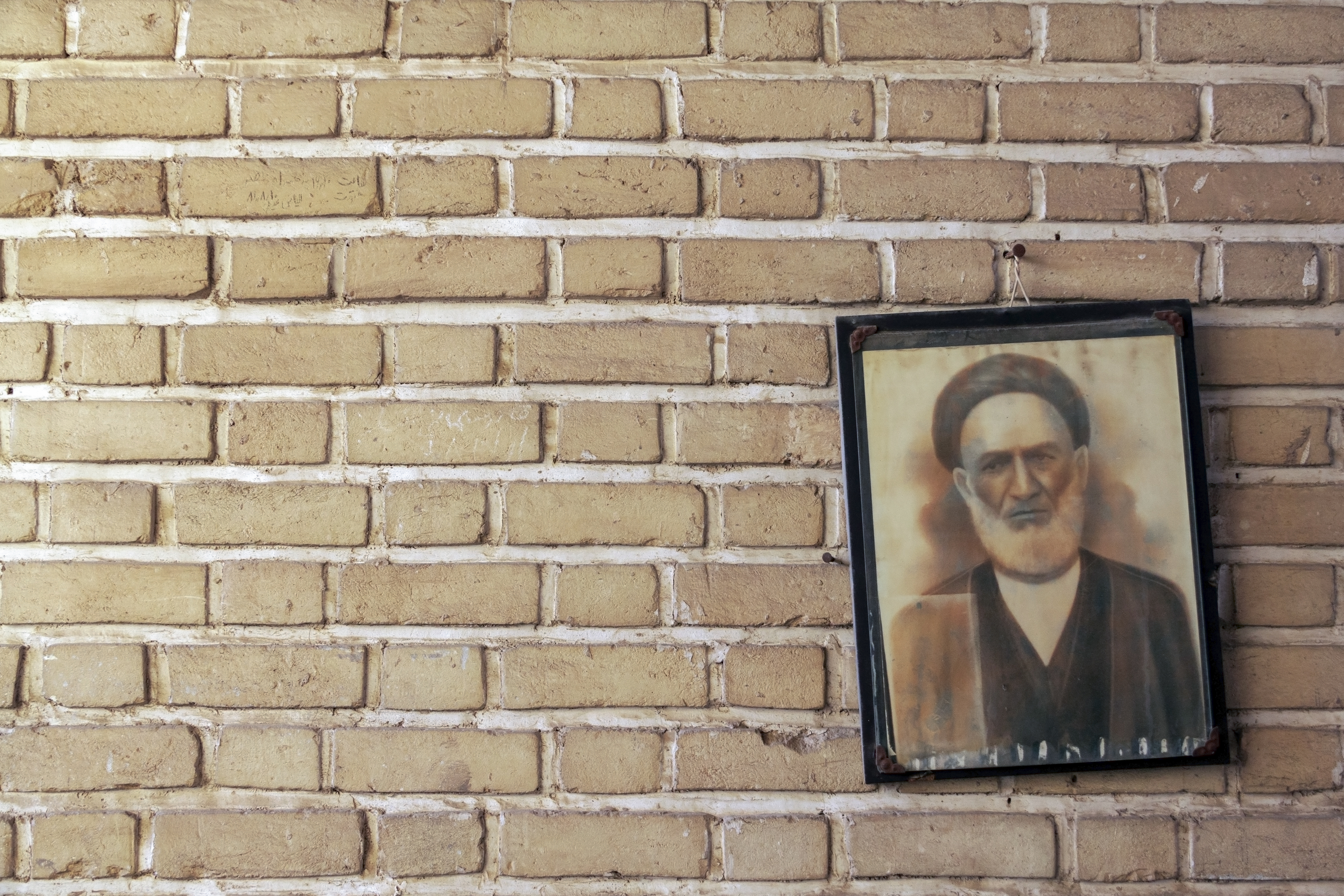 Qom is the seventh largest metropolis and also the seventh largest city in Iran.